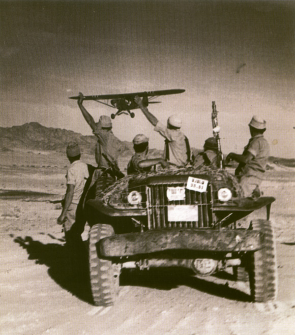 Following countless terrorist incursions by “fedayeen” infiltrating the shared border with Egypt, Israel was forced to adopt measures to halt these attacks. On October 29, 1956, the Sinai Campaign was launched. In a sweeping operation of 100 hours, the Israel Defense Forces took control of the entire Sinai peninsula. Britain and France joined the IDF’s war efforts on November 1, launching a devastating strike on the Egyptian Air Force. Pictured above is a crew of an IDF jeep waving at a French Air Force Bomber. Photo: IDF photo archives. The Israel Defense Forces Facebook • blog • Twitter